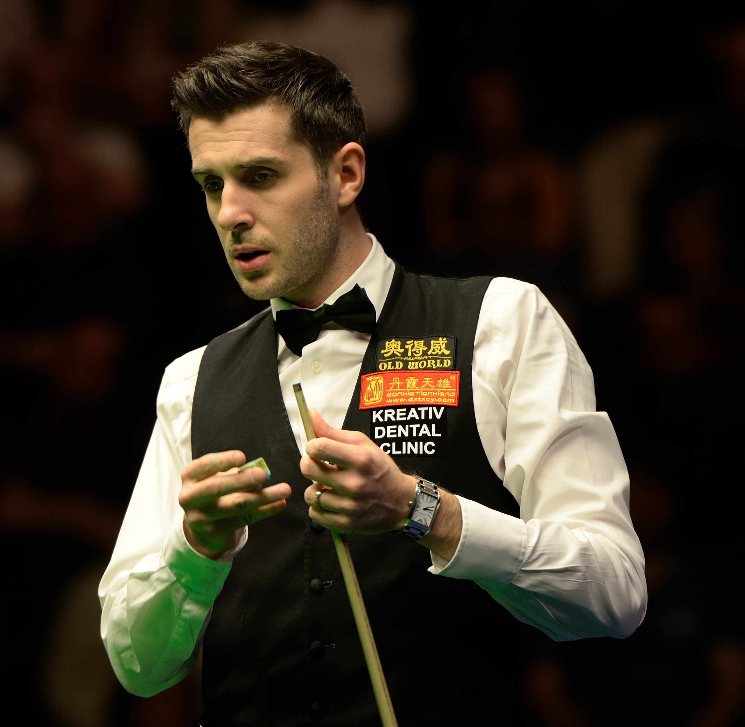 Picture taken in Berlin during the Snooker German Masters in 2015. Mark Selby.